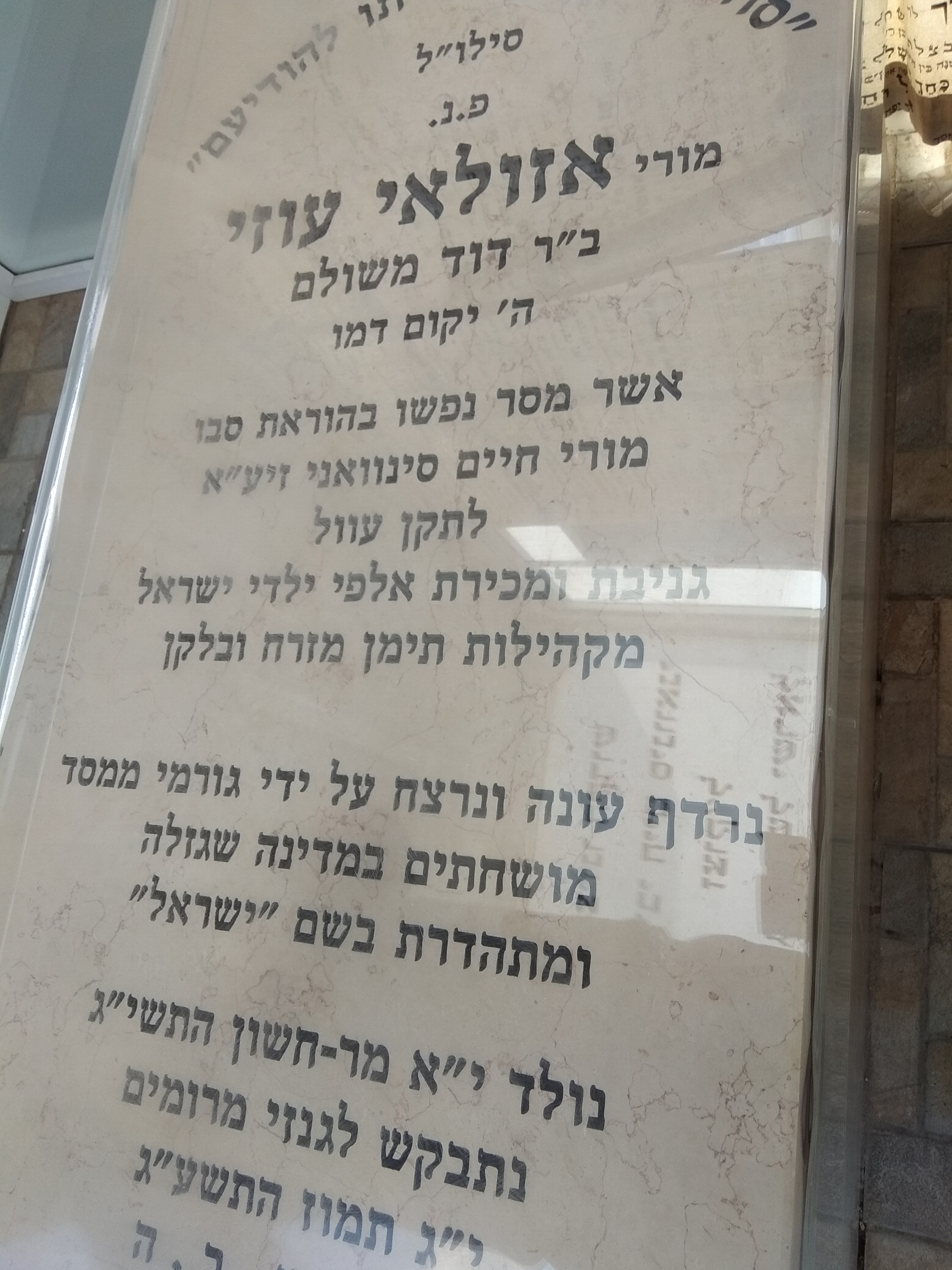 Gravestone of Usi Meshulam